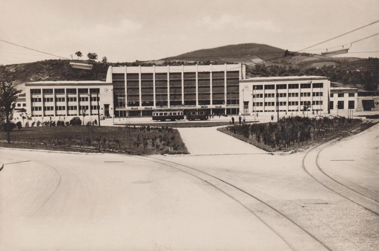 The 0,76 m narrow-gauge tram at the new railway station in Sarajevo in the 1950s